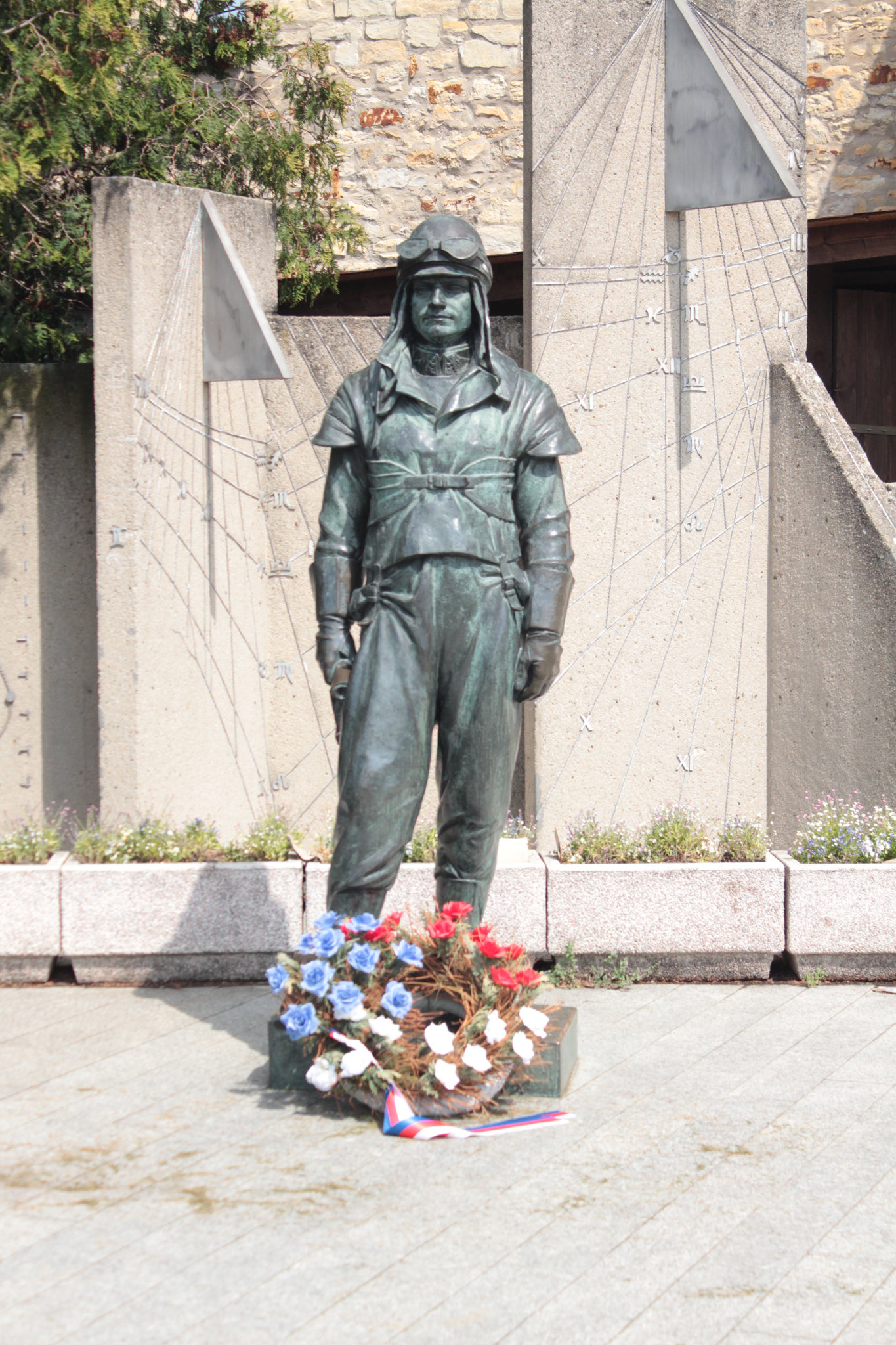 This image has been originally created as the illustration for … Rastislav Štefánik entry in crosswords dictionary . It has been released under CC-BY-3.0 license.